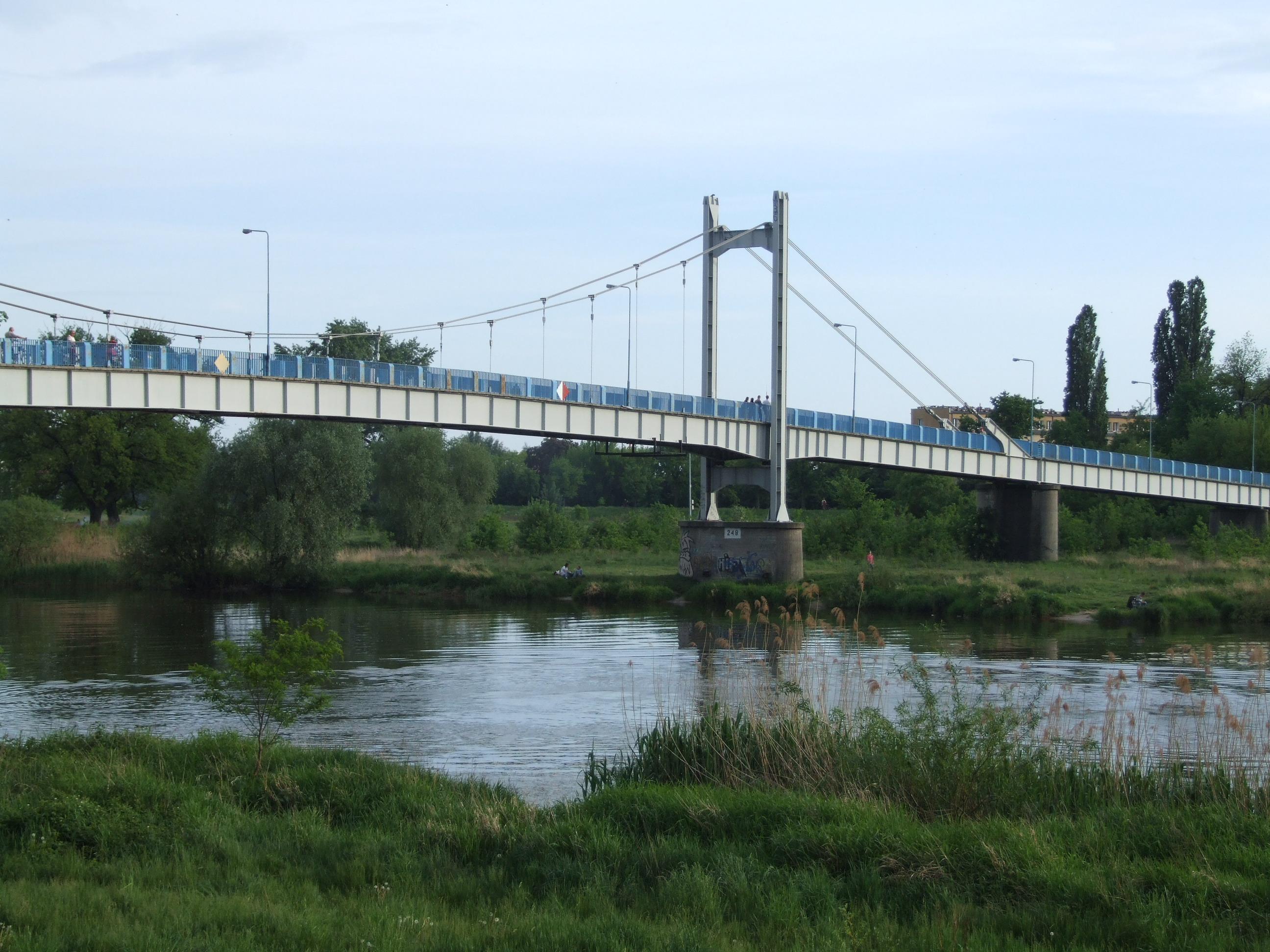 Kładka nad Odrą. Kładka nad Odrą, Wroclaw.